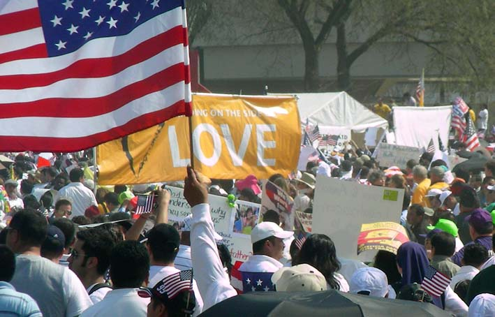 March for America brings 200,000 people to Washington, DC, to call for comprehensive immigration reform.